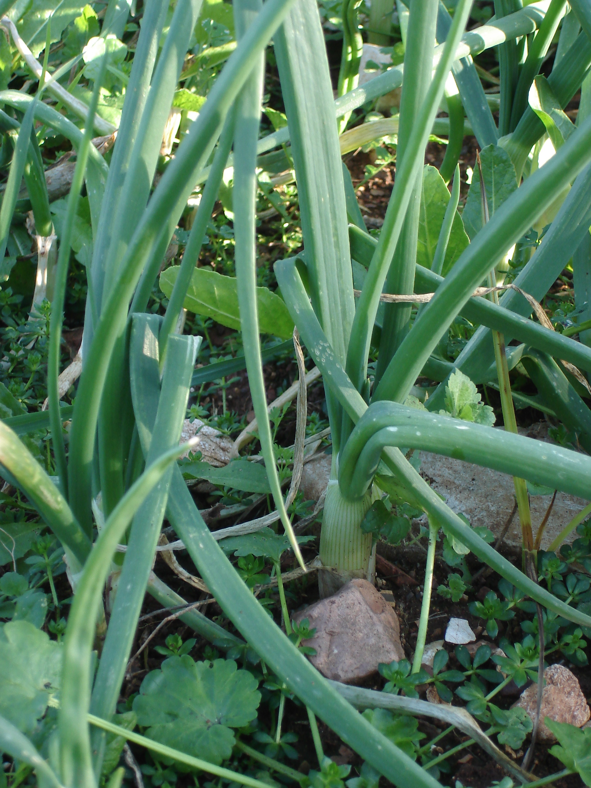 onions